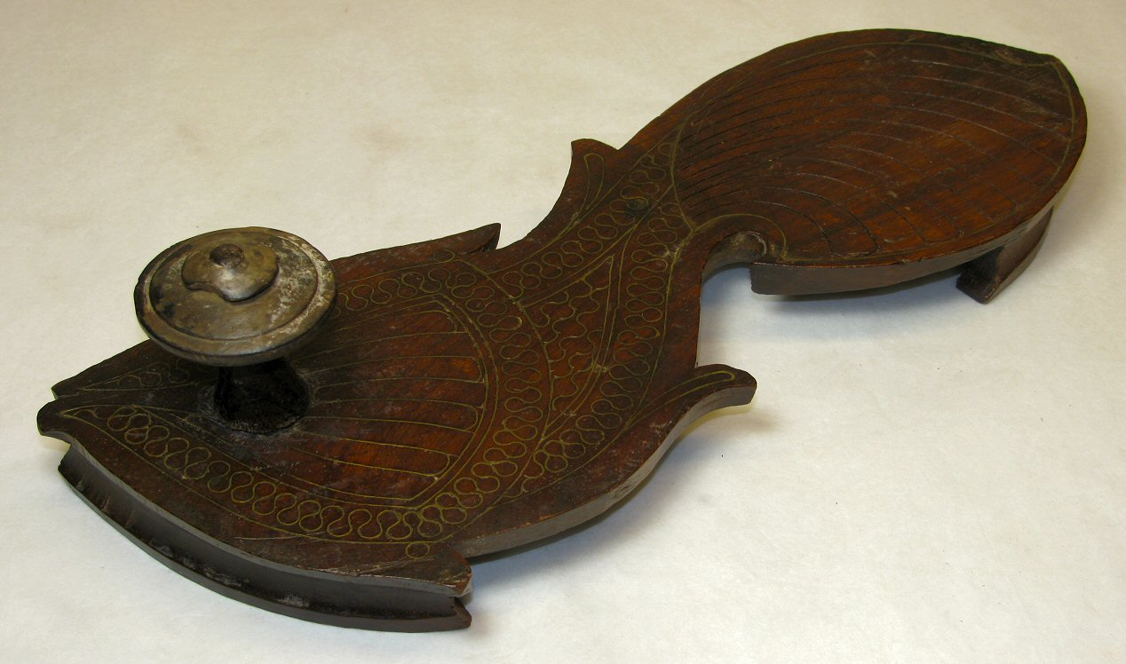 Clogs from Inda